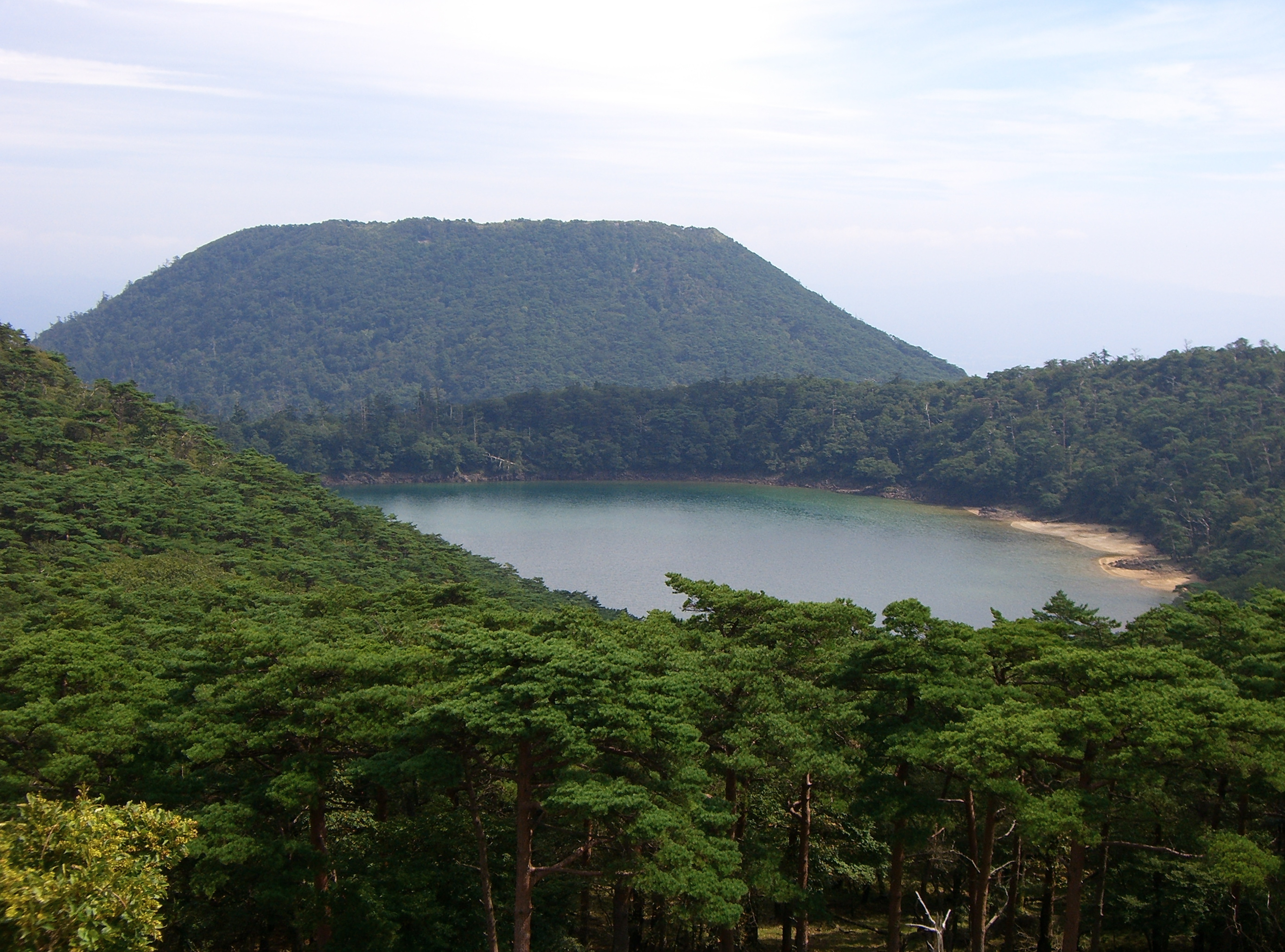 Mount Koshikidake and Lake Rokkannonmiike in Miyazaki, Japan.